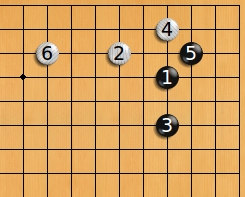 Basic Joseki